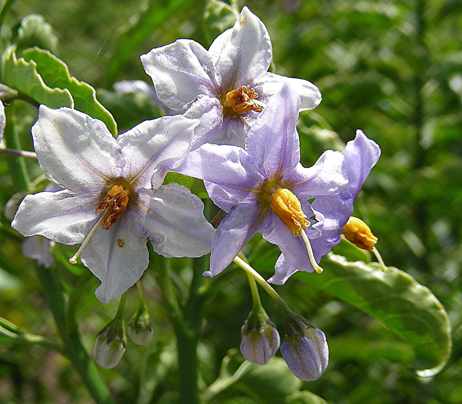 Prior to being submerged in S. Crispum, this was Solanum ligustrinum, known in north-central Chile as Natri. San Francisco Botanical Gardens. In context at